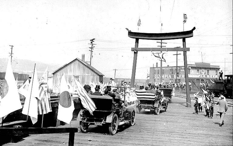 PH Coll 792.EYT2 Subjects (LCSH): Processions--Washington (State)--Seattle; Automobiles--Washington (State)--Seattle; Flags--Japanese; Flags--United States; Alaska-Yukon-Pacific Exposition (1909 : Seattle, Wash.); Exhibitions--Washington (State)--Seattle The Portland Cordage Co. Rope Walk can be seen in the background.